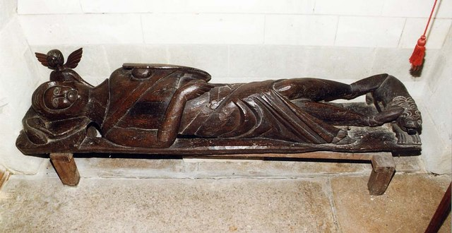 St Olave, Gatcombe - Monument Effigy of C14 knight